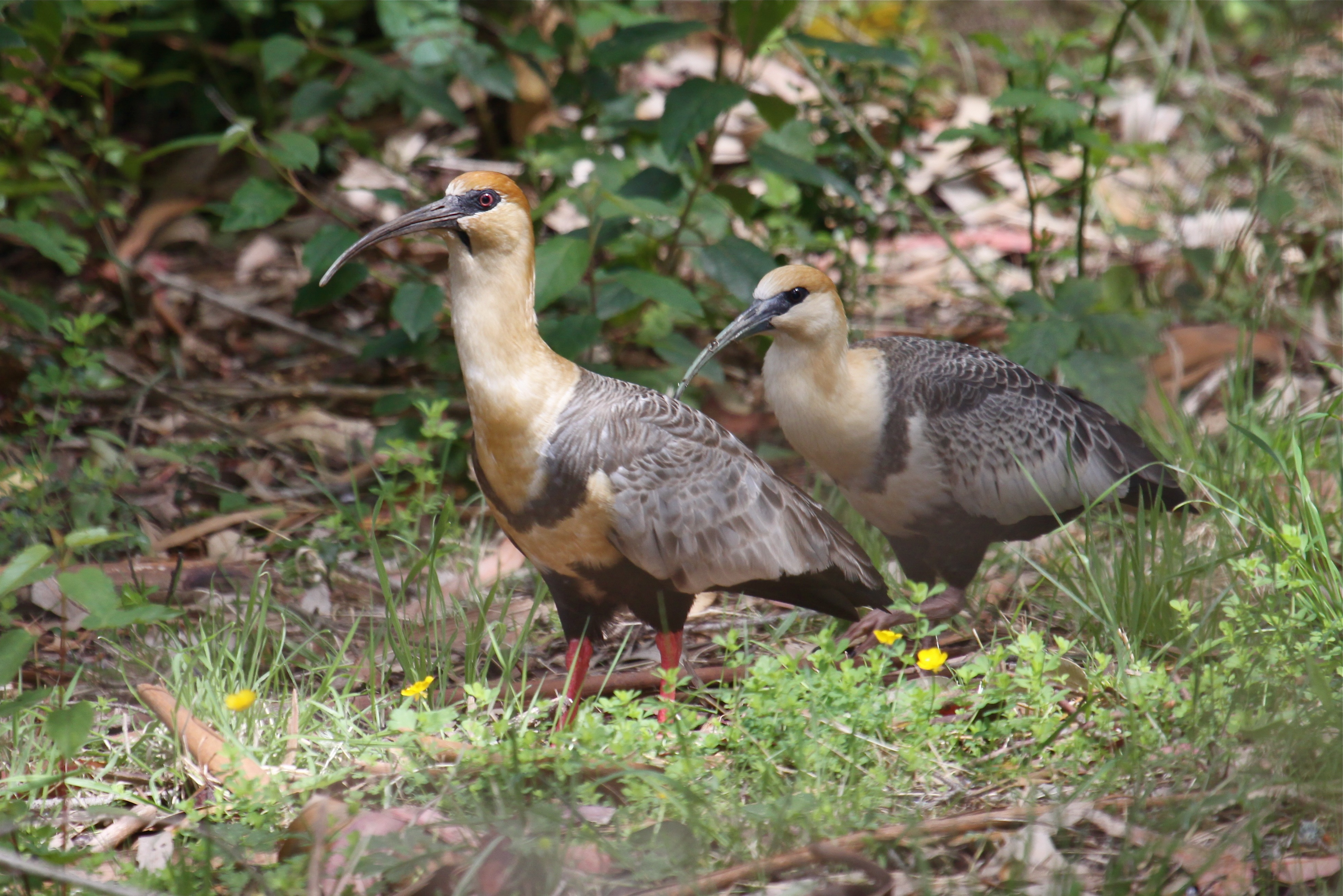 Black-faced Ibis at Puerto Montt, Chile.